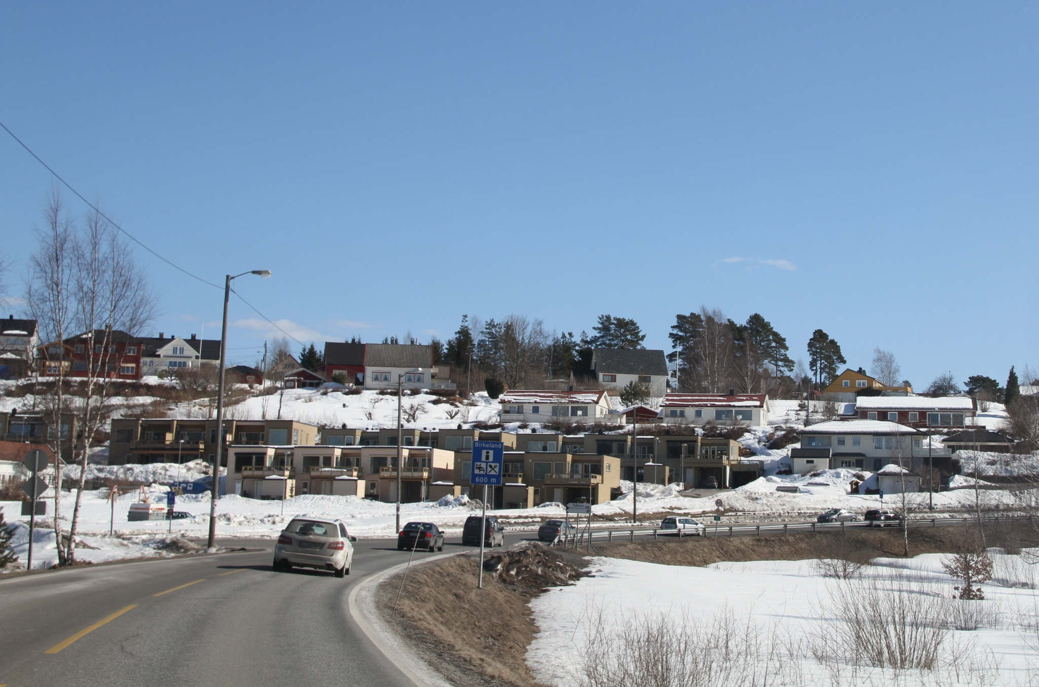 Image from the settlement Birkeland, center of the municipality of Birkenes, Aust-Agder county (Norway).